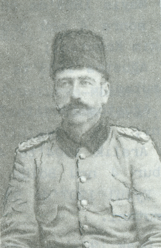 Miralay Reşat Bey (Çiğiltepe)